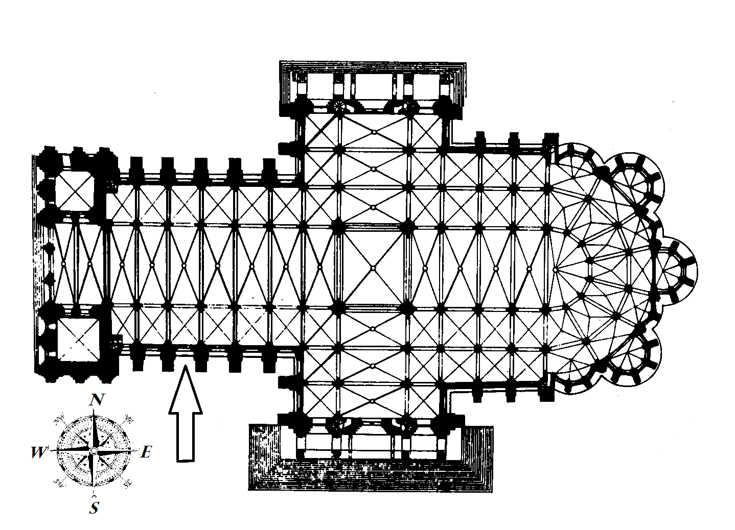 Chartres Cathedral floor plan, Good Samaritan window pointed to by arrow; Compass added